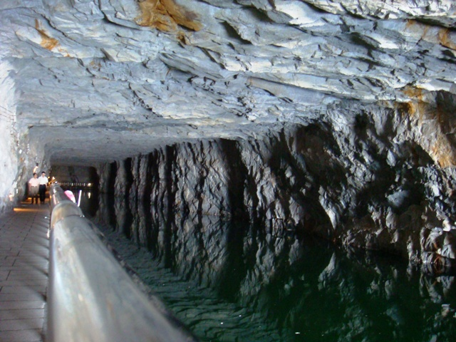 Jhaishan Tunnel, Kinmen.